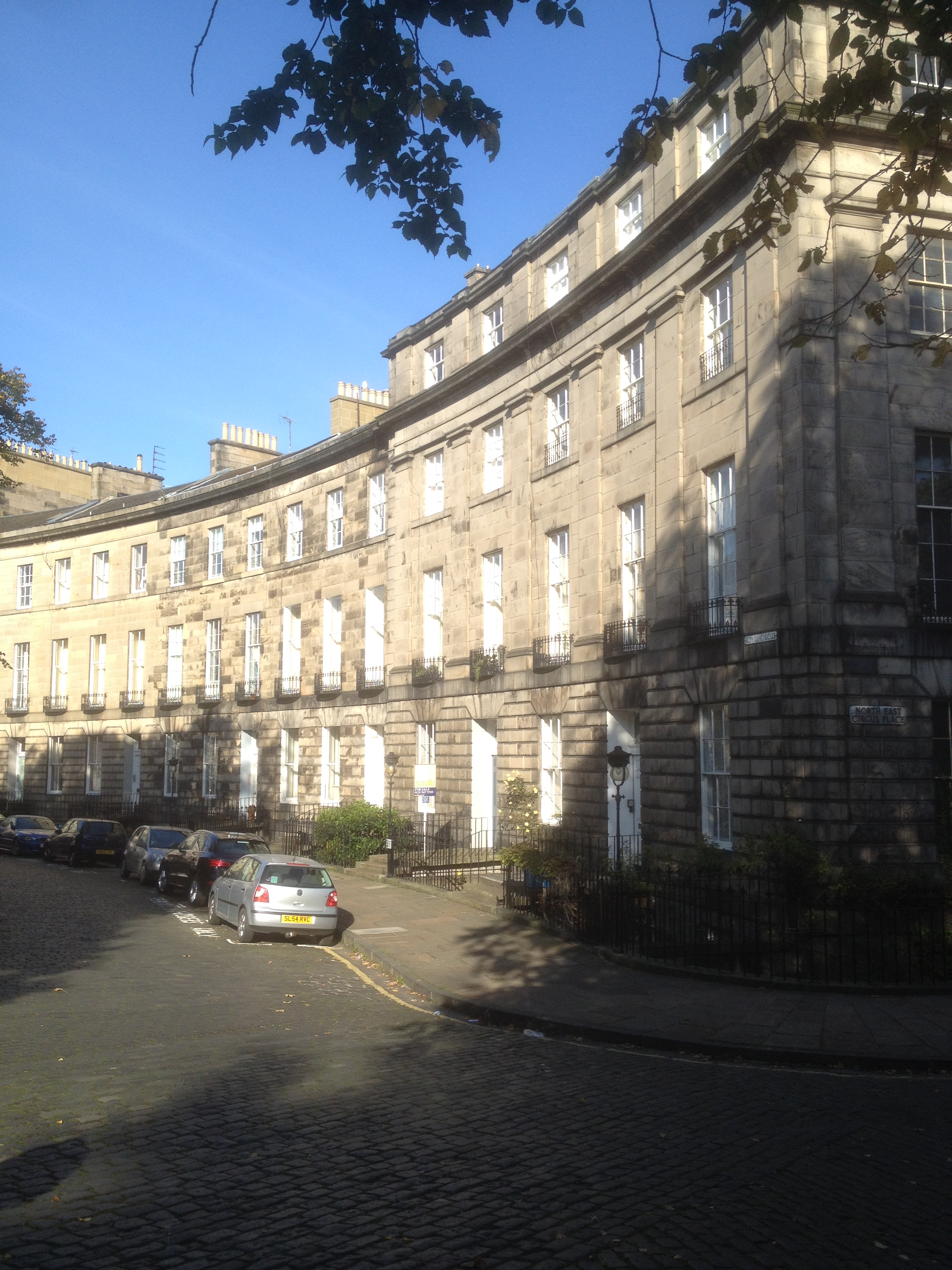 Royal Circus 2-22, Edinburgh. The Northern semi-circle of a circular feature designed by Henry Playfair in the 19th century.